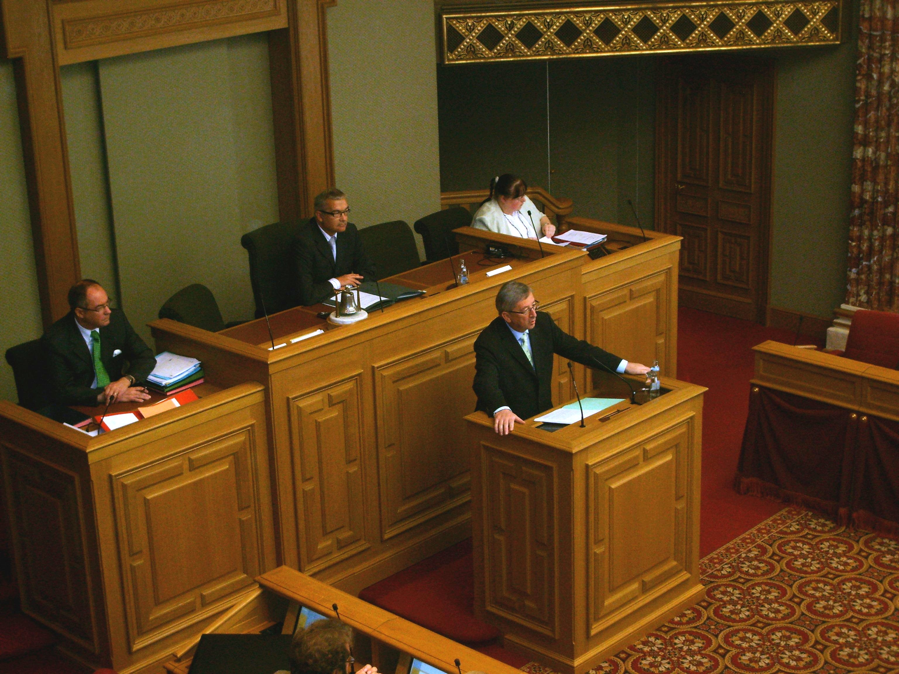 Prime minister Jean-Claude Juncker presents the governmental programme of the new Luxembourg government Juncker-Asselborn II in the Luxembourg parliament.